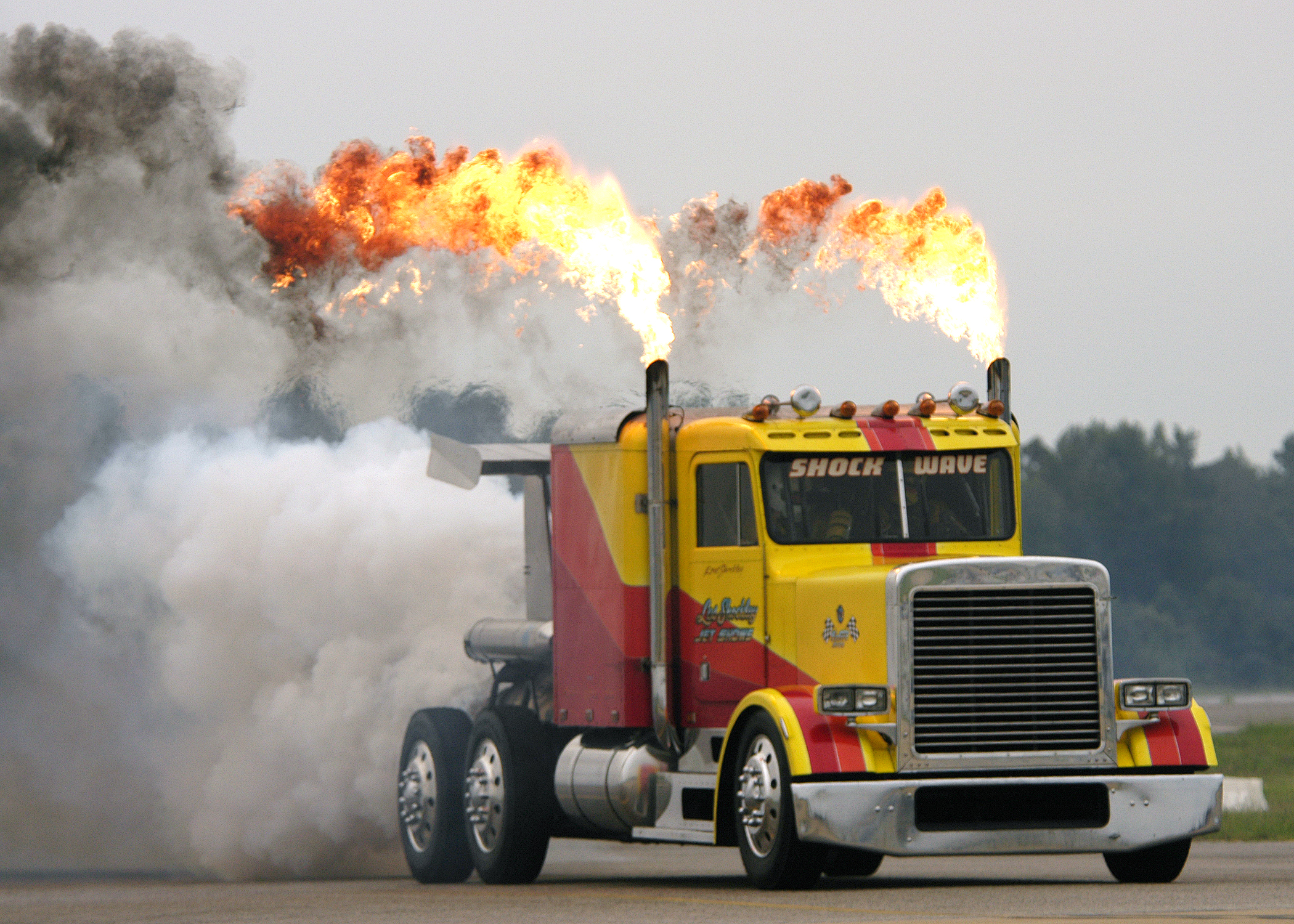 Naval Air Station (NAS) Oceana, Virginia Beach, Va. (Sep. 6, 2003) -- "Shockwave," the world's fastest truck, dazzles the crowd with smoke and fire at the 2003 Naval Air Station Oceana Regional Air Show. "Shockwave" can reach speeds up to 376 mph. U.S. Navy photo by Photographer’s Mate 2nd Class Anthony Koch. (RELEASED)